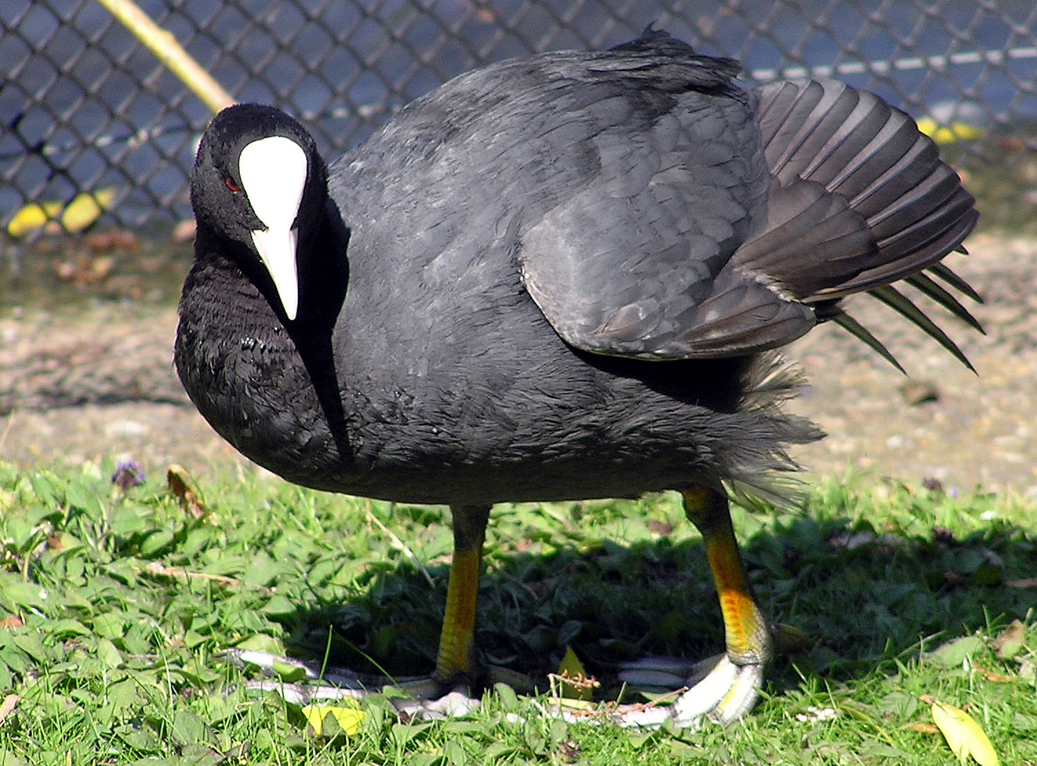 Eurasian Coot in St James Park, London, England. Photographed by Adrian Pingstone in June 2005 and released to the public domain.